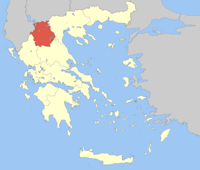 Locator Map of West Makedonia Periphery, Greece